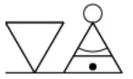 [pʰaːntsʼi] written in the Isibheqe Sohlamvu writing system for sintu languages (Southern Bantu)